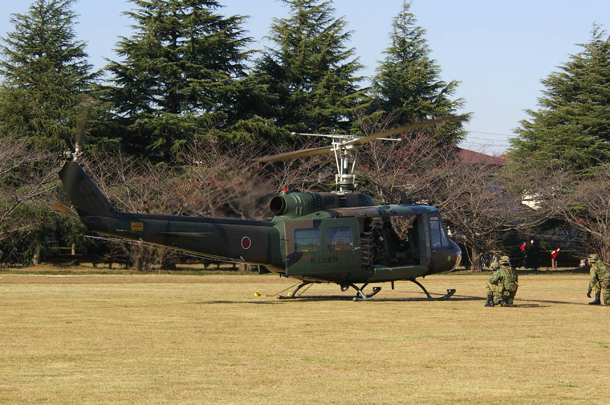 JGSDF UH-1H,in Camp Matsudo,Japan. UH-1H 2007年11月18日、松戸駐屯地で撮影。